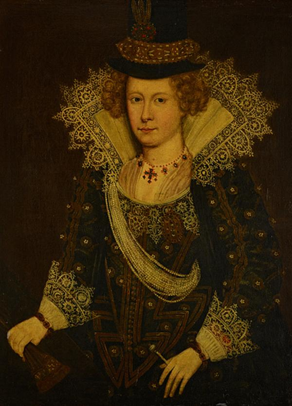 Portrait of Mary Beaton (1543-1598), 16th century Scottish noblewoman and lady in waiting to Mary, Queen of Scots.